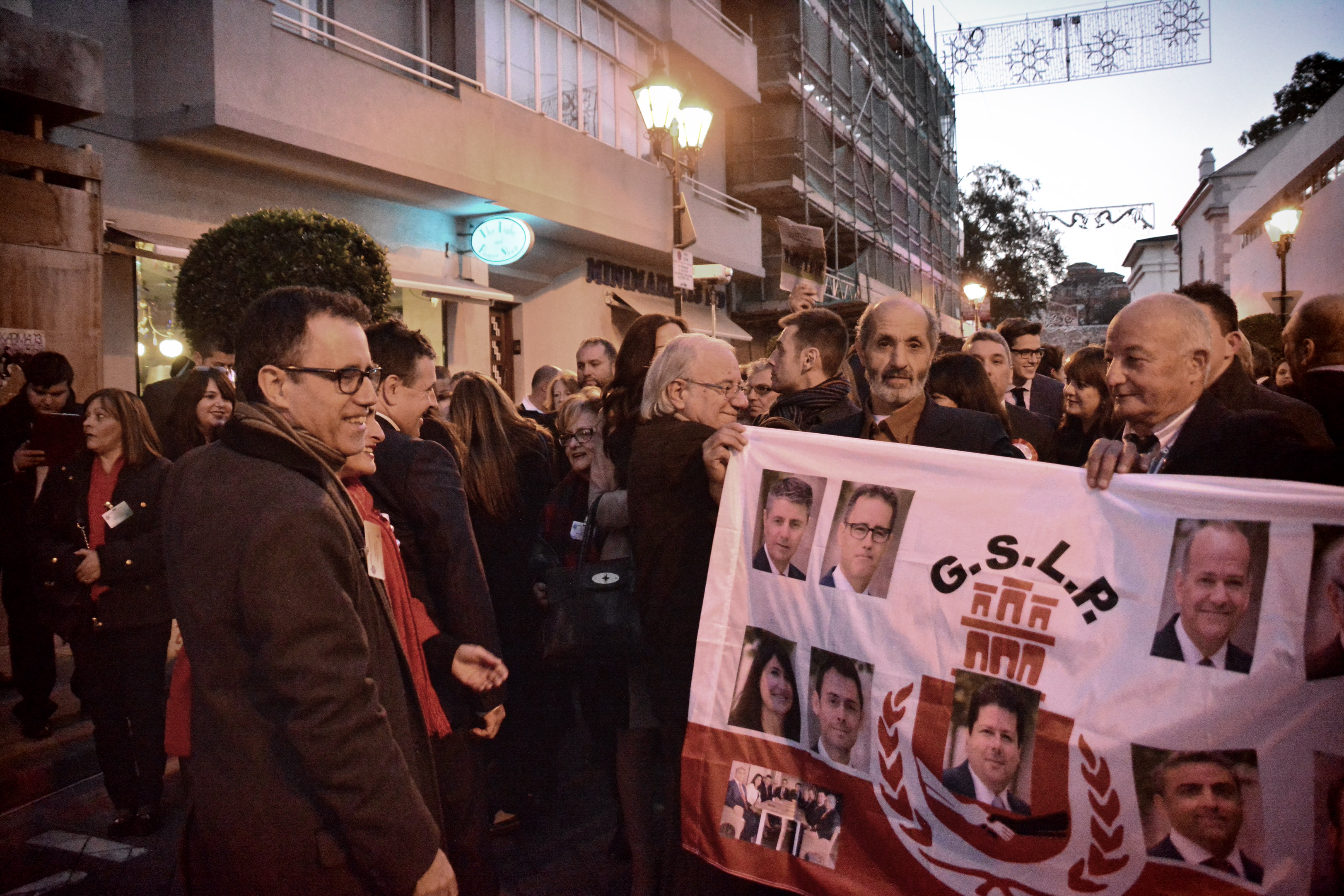 Gibraltar - 27th November 2015 - As Gibraltar woke up for work, John Macintosh Hall closed the count to the general election placing the GSLP/Liberal Alliance as the party to form Government. With an overall mayority 68.03% against the GSD's 31.37, the GSLP/Liberals recorded an overwhelming victory which once again sees Fabian Picardo as the Chief Minister of Gibraltar. The results were: - PICARDO, Fabian Raymond 10852 GARCIA, Joseph John 10661 CORTES, John Emmanuel 10529 LICUDI, Gilbert Horace 10379 ISOLA , Albert Joseph 10313 COSTA, Neil Francis 10048 SACRAMENTO, Samantha Jane 9822 LINARES, Steven Ernest 9690 BALBAN, Paul John 9511 BOSSANO, Joseph John 9145 FEETHAM, Daniel Anthony 5054 HASSAN NAHON, Marlene Dinah Esther 4892 PHILLIPS, Elliott John 4784 REYES, Edwin Joseph 4766 CLINTON, Roy Mark 4733 HAMMOND, Trevor Nicholas 4578 LLAMAS, Lawrence Francis 4565 VASQUEZ, Robert Michael 4535 WHITE, Christopher George 4324 KARNANI-SANTOS, Kim Sylvia 4314